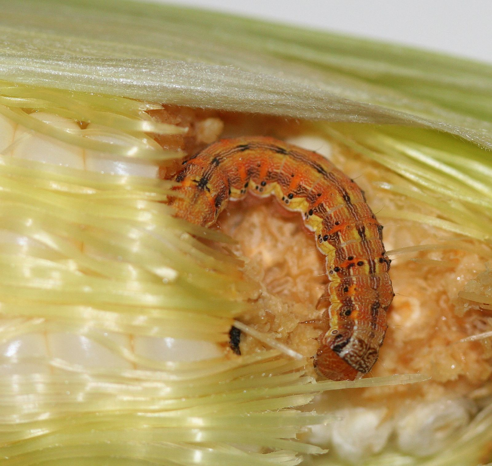 Helicoverpa zea larva